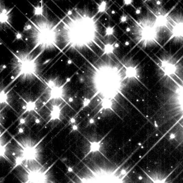 White dwarf stars, imaged by JPL's Wide Field and Planetary Camera 2 on NASA's Hubble Space Telescope.